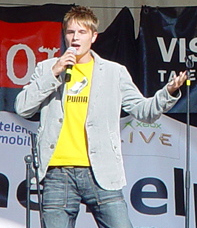 Gaute Ormåsen